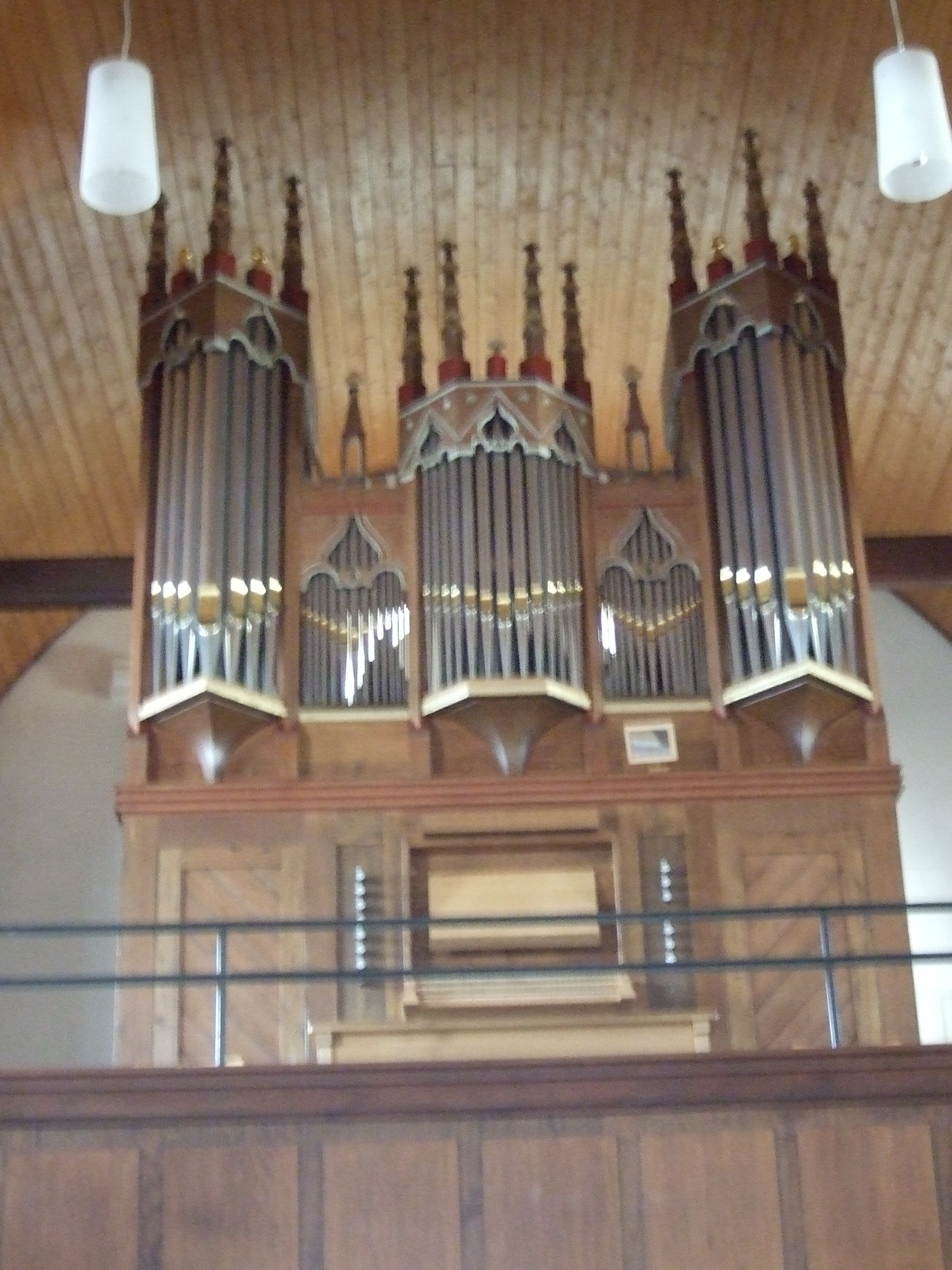 Church Wellerode organ